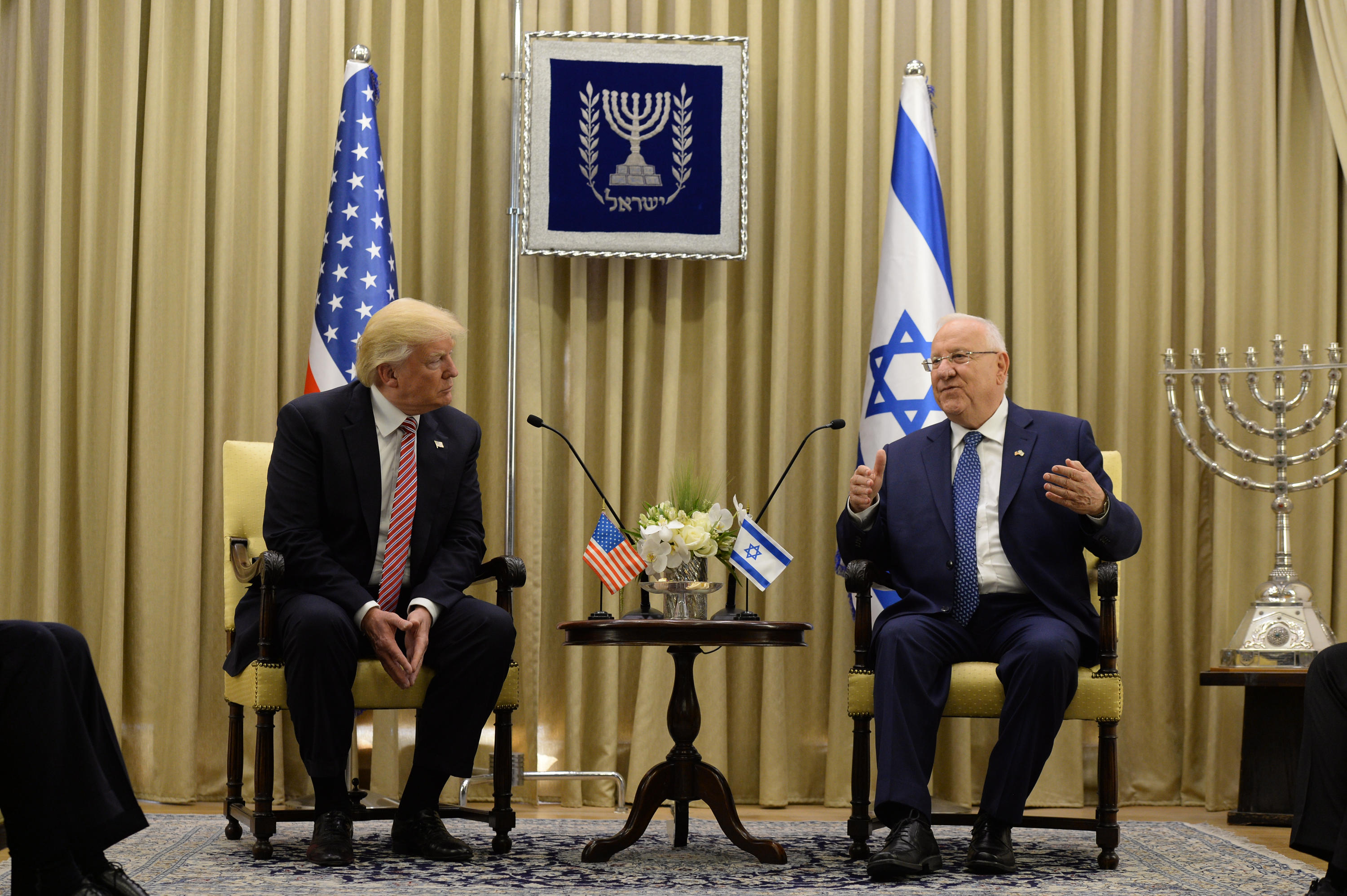 President of Israel, Reuven Rivlin, and the President of the United States, Donald Trump, in Mishkan HaNassi, the official residence of the President of Israel in Jerusalem